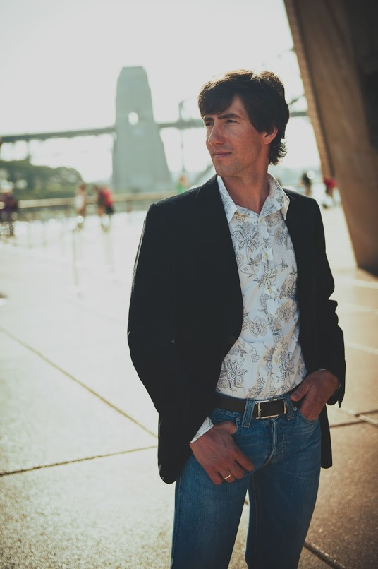 Sydney, 2013